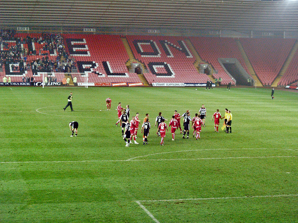 The words 'COME ON DARLO' can be seen written in the stands at the Darlington Arena. Taken at a game between Darlington and Bury on the 4th of Novemebr 2008.